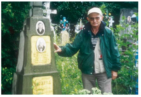 ישראל שריר ליד קבר מצילו חסיד אומות העולם מיכאיל בלגאי